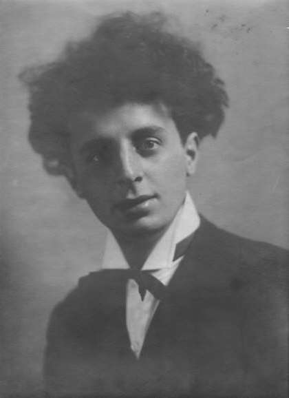 Picture of Marcello Boasso